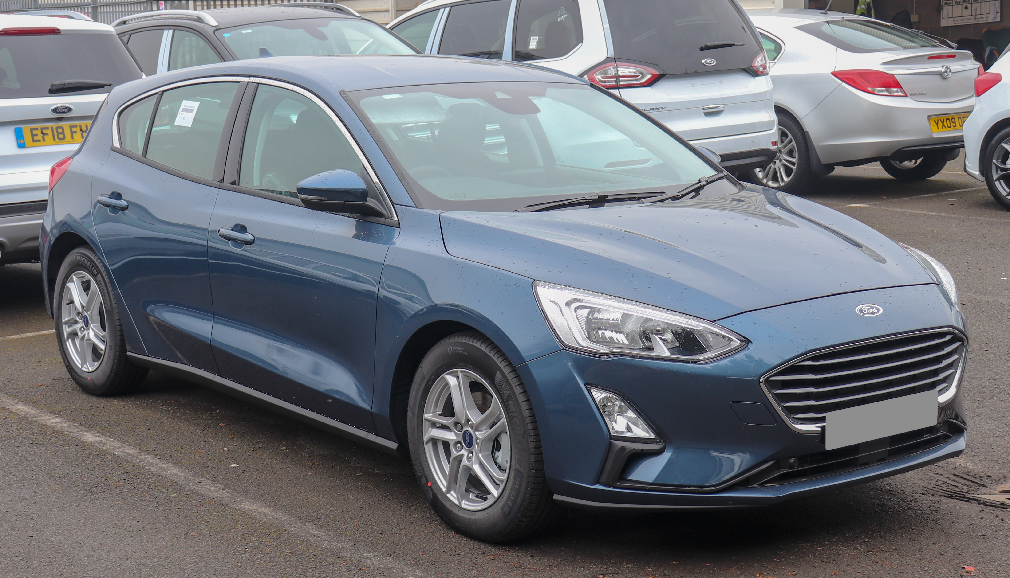 2019 Ford Focus Zetec 1.0 Taken in Leamington Spa